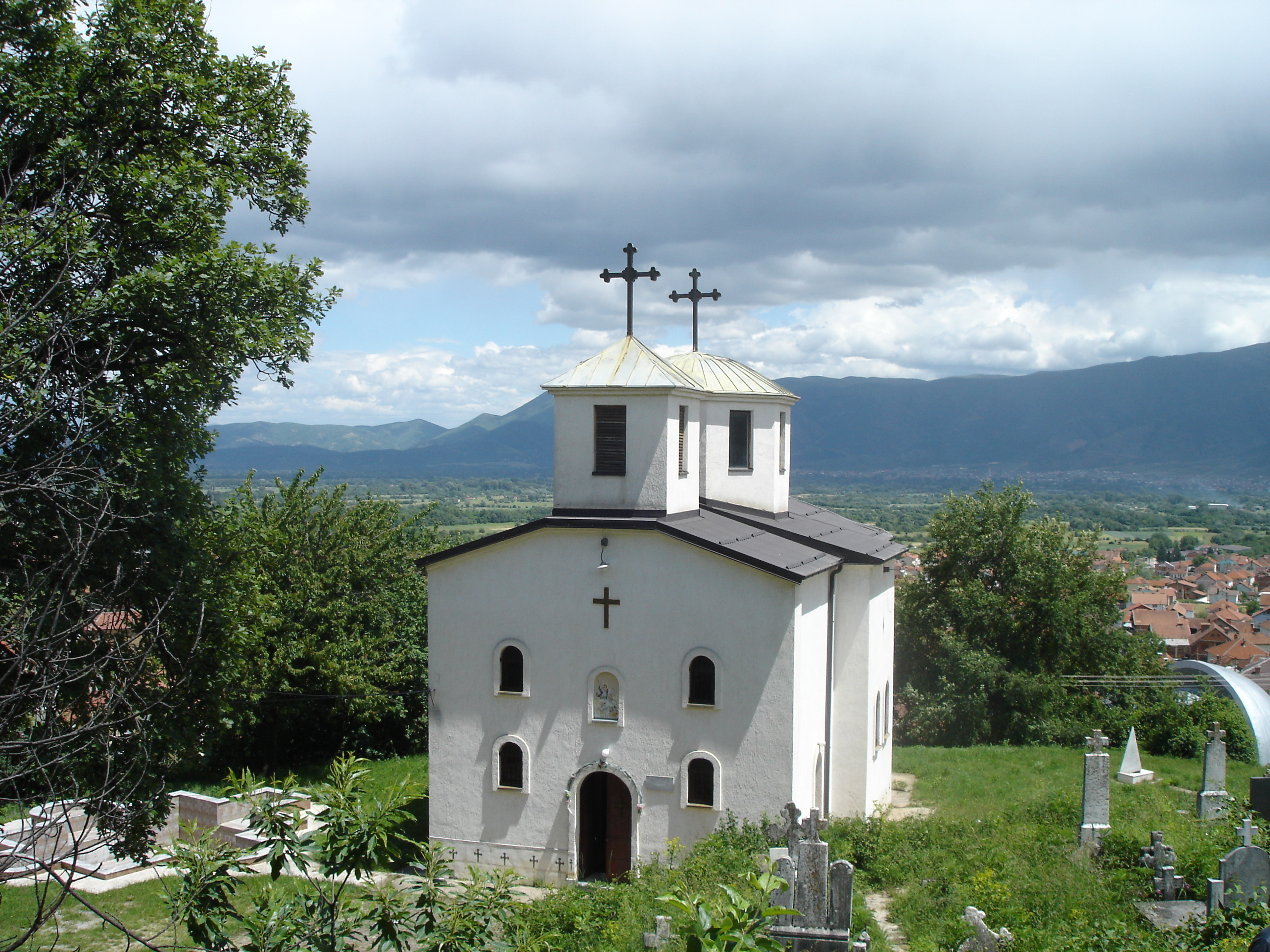 Church Sv,Gjorgija in Debrese, Macedonia